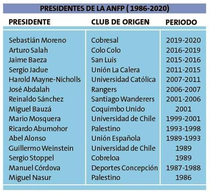 Presidentes de la ANFP (1986-2020)